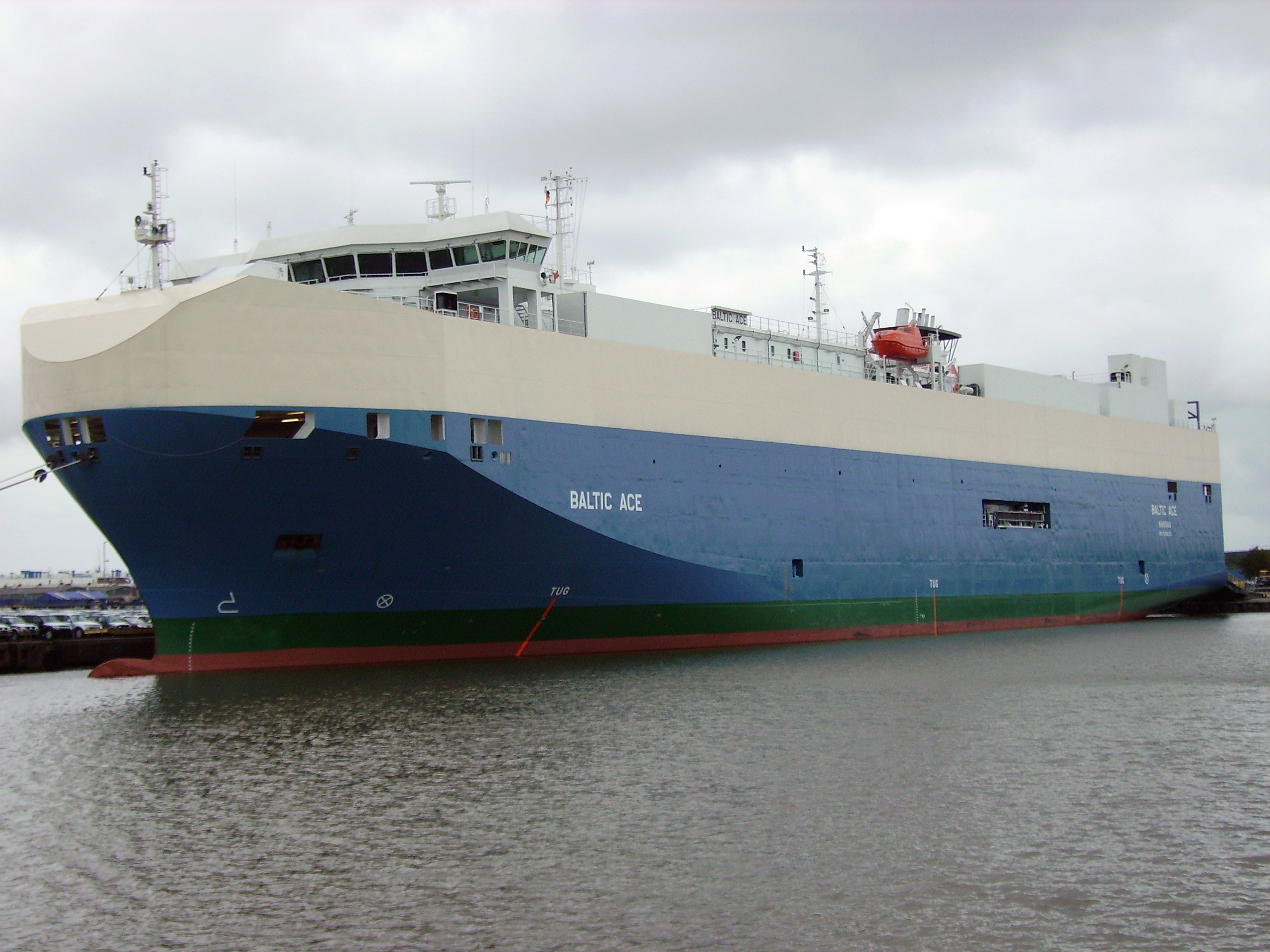 The car carrier Baltic Ace in the port of Bremerhaven, Germany